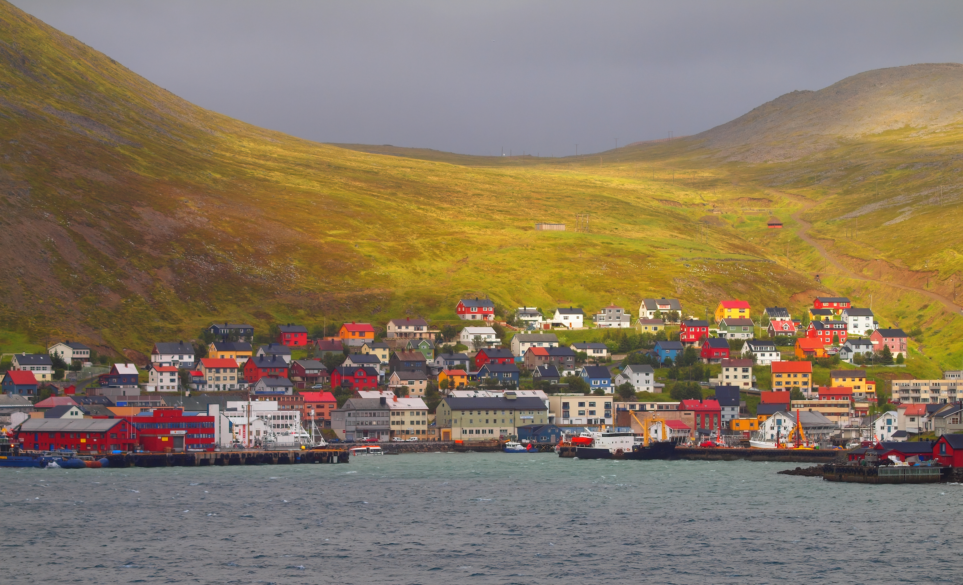 Honningsvåg, Magerøya island, Nordkapp, Norway.